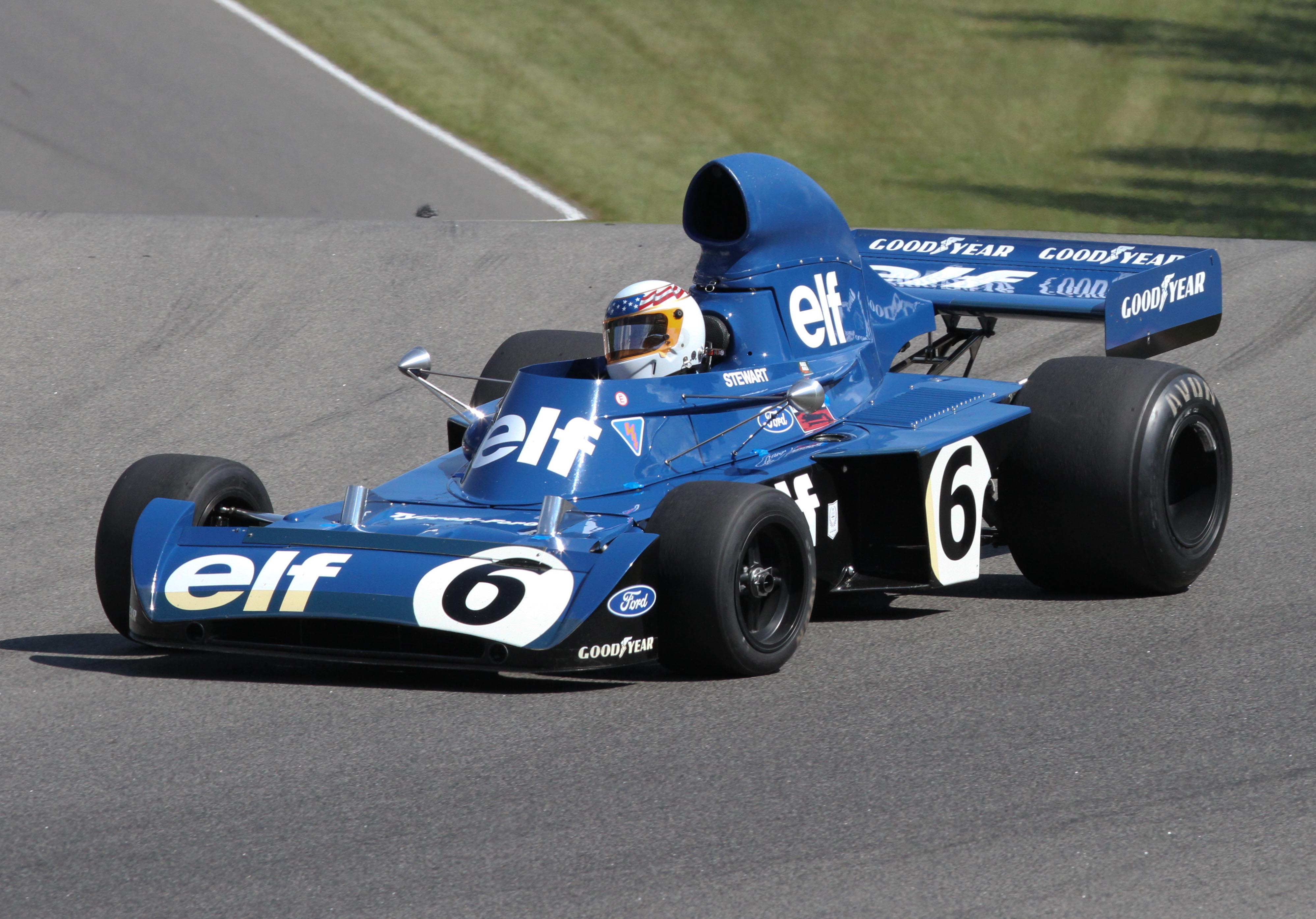 John DeLane aims his Tyrrell 006 for the apex of the second half of The Esses at Circuit Mont-Tremblant, during the 2010 Legends of Motorsport meeting.